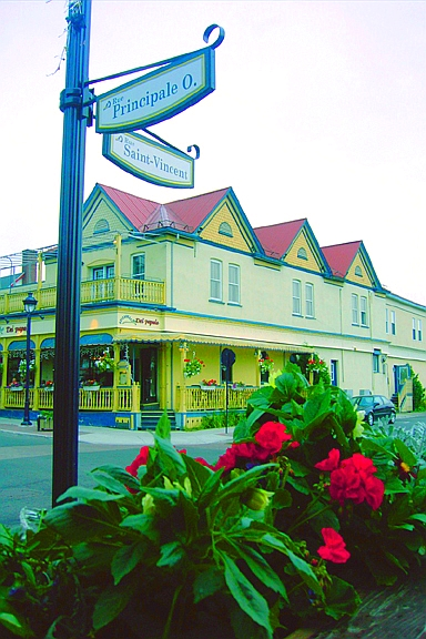 Ste Agathe des Monts rue Prinicpale, Québec, Canada